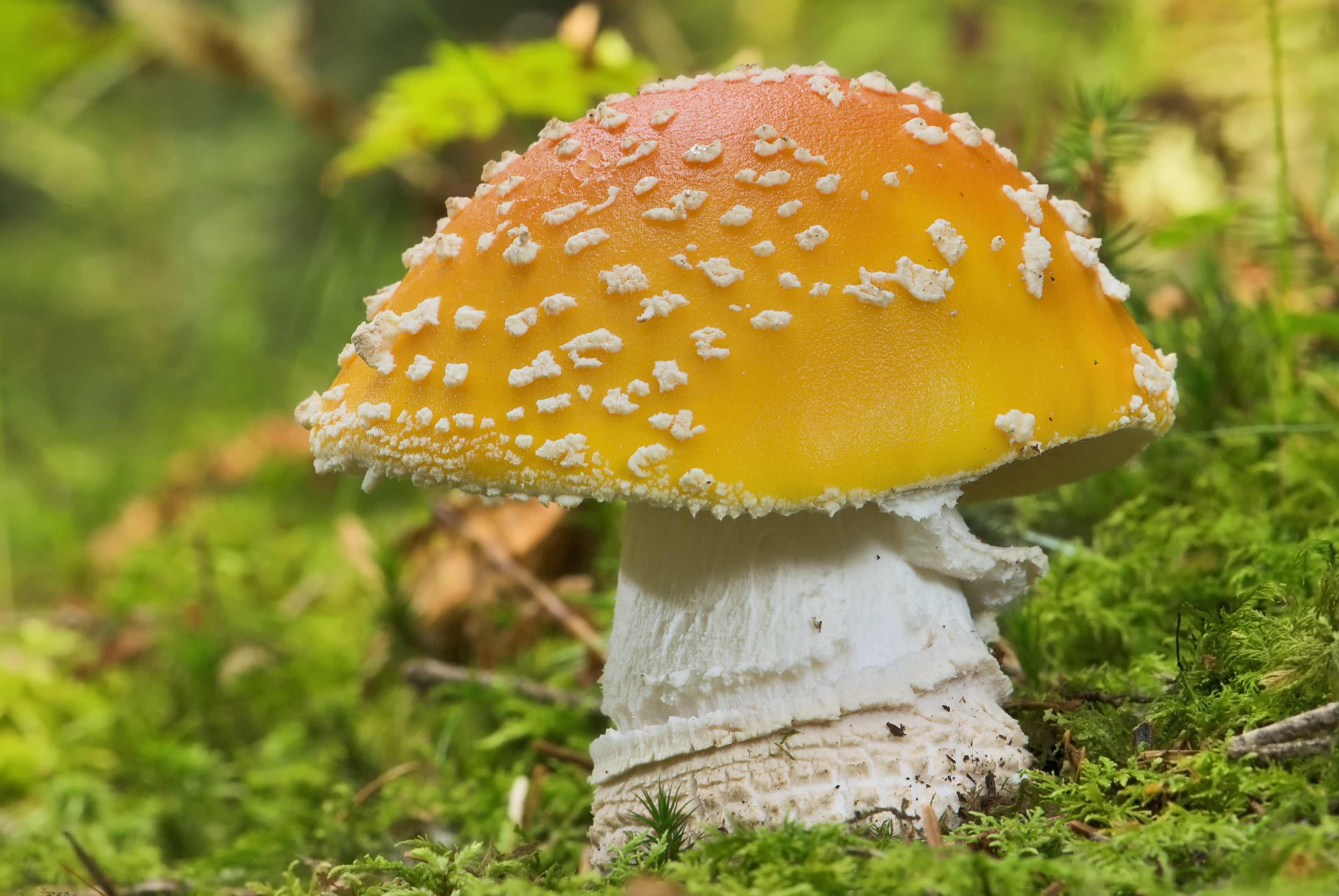 The fly agaric (Amanita muscaria) is one of the best known poisonous fungi. The specimen in the picture measures about 115 mm in height and has not fully opened up yet.